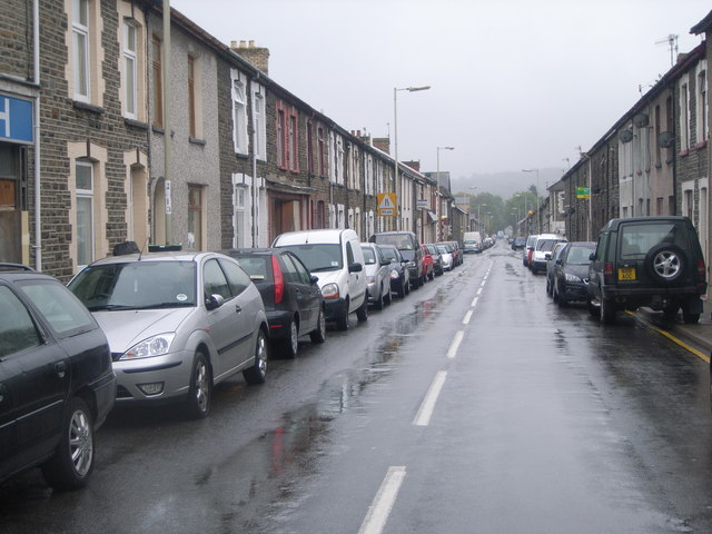 Ynysybwl High Street